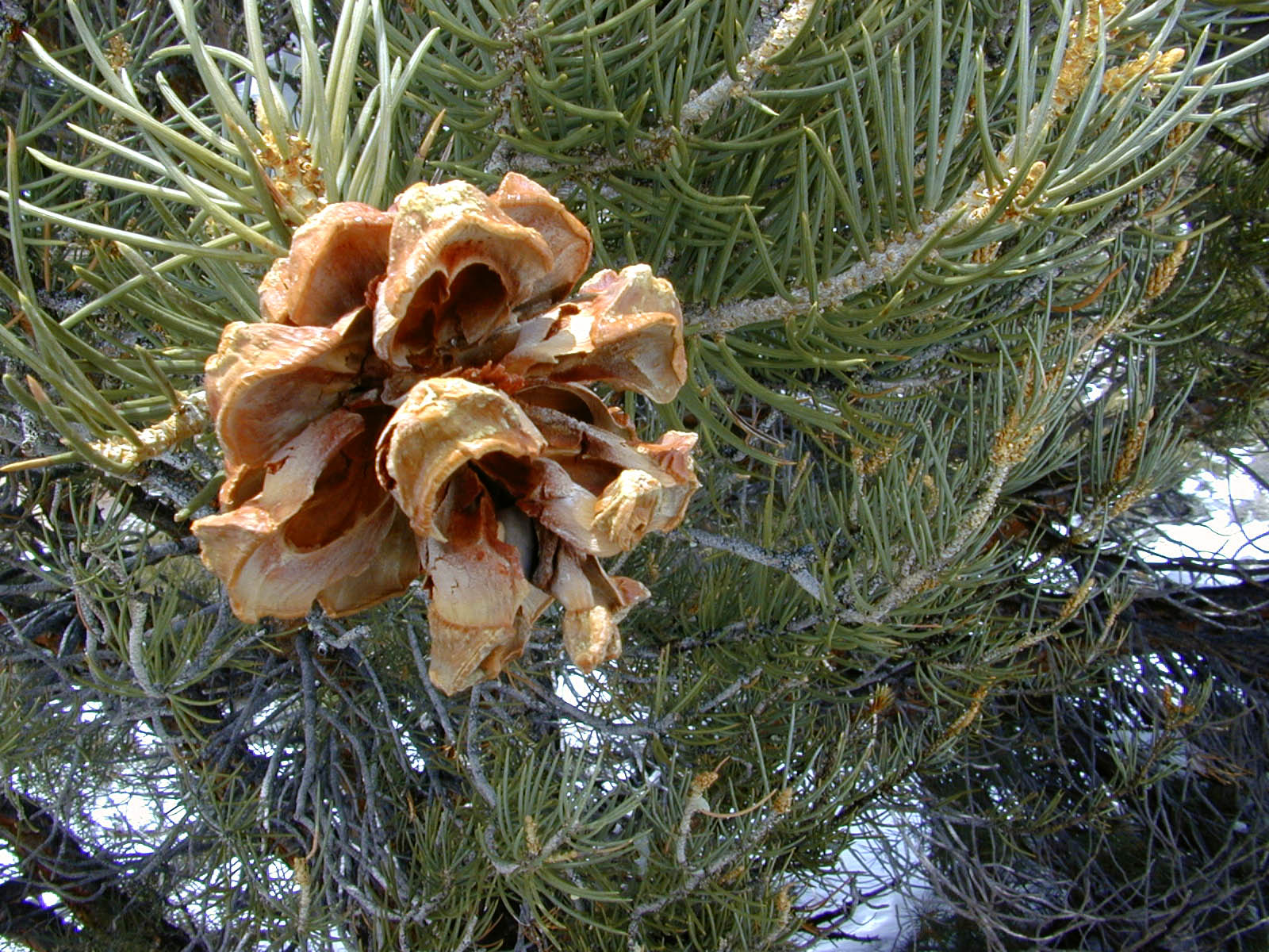 Pinus monophylla foliage and cone, Tioga Pass road, Mono County, California, 37°55'53"N 119°9'51"W, 2260 m altitude.